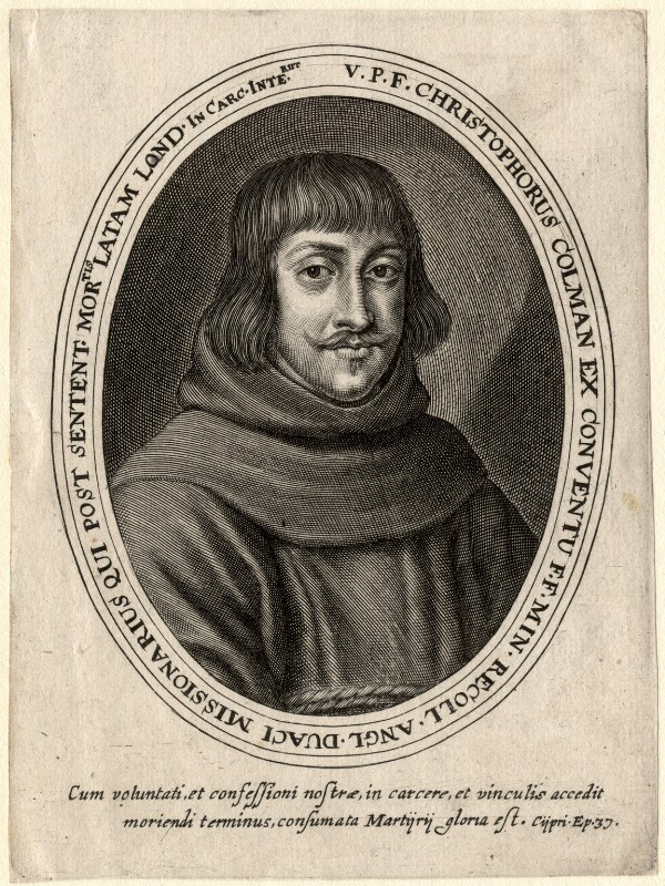 Walter Coleman (Christopher Colman) after Unknown artist line engraving, published 1649 5 3/4 in. x 4 1/4 in. (145 mm x 107 mm) paper size NPG D13651